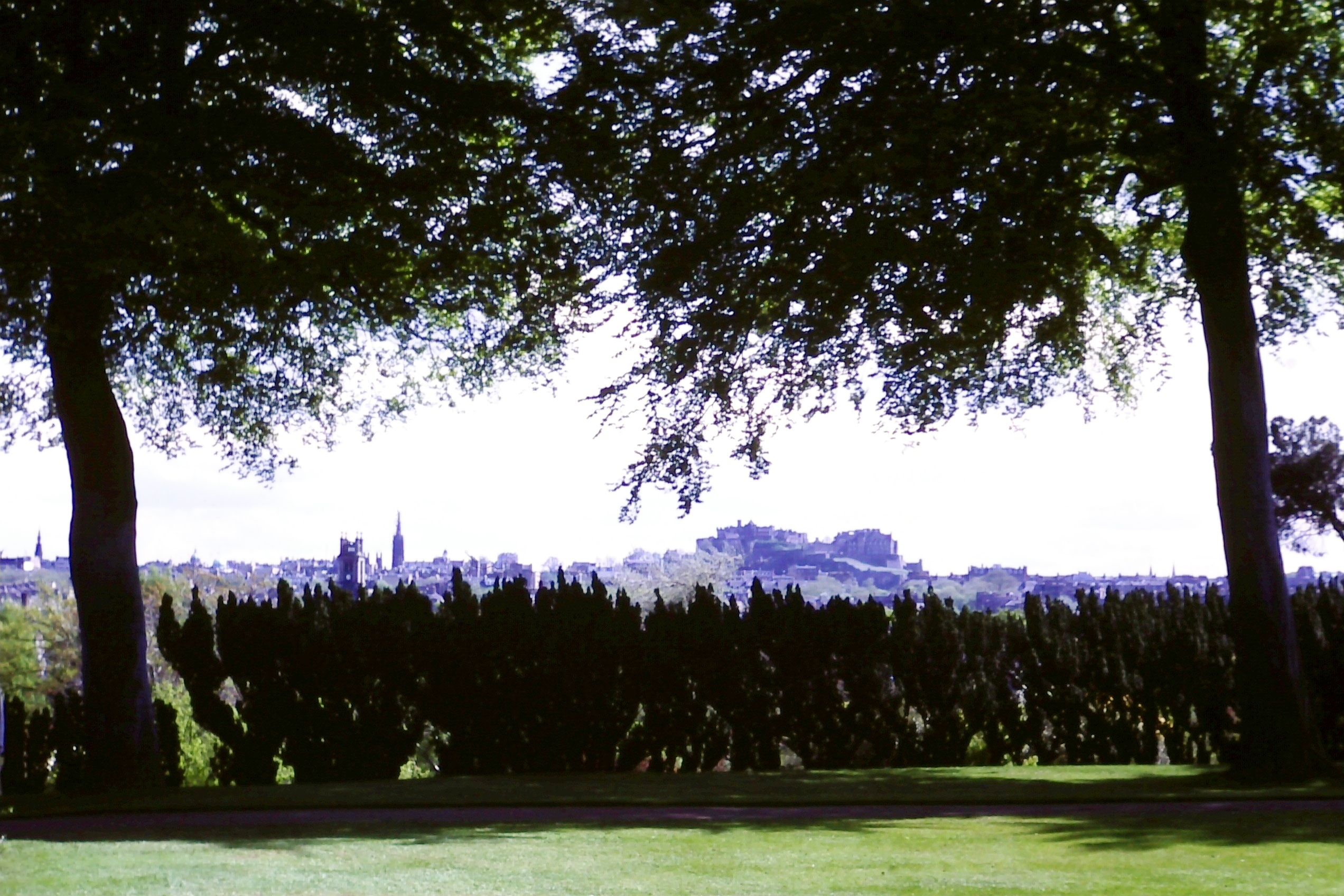 View of Edinburgh from Royal Botanic Garden, Inverleith, photographed in 1981